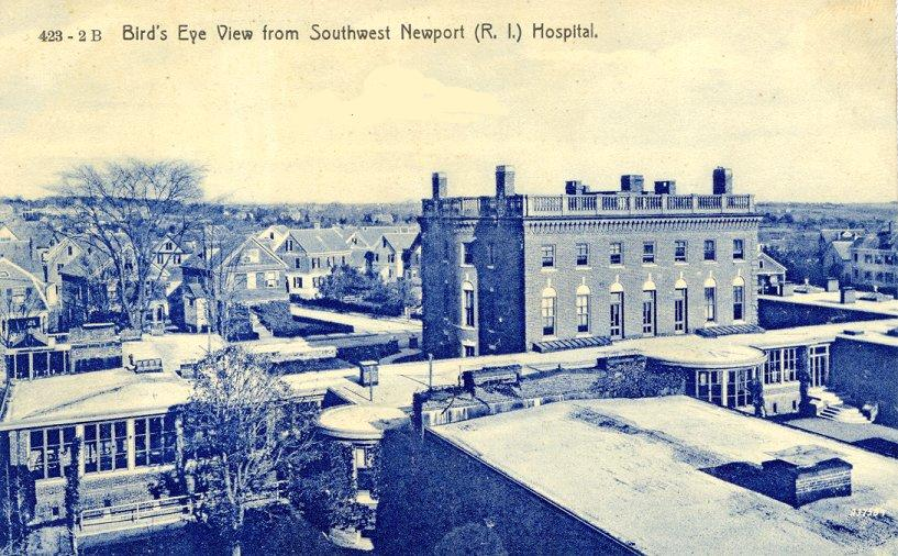 423-2B Birds eye view from Southwest Newport (R.I) Hospital.